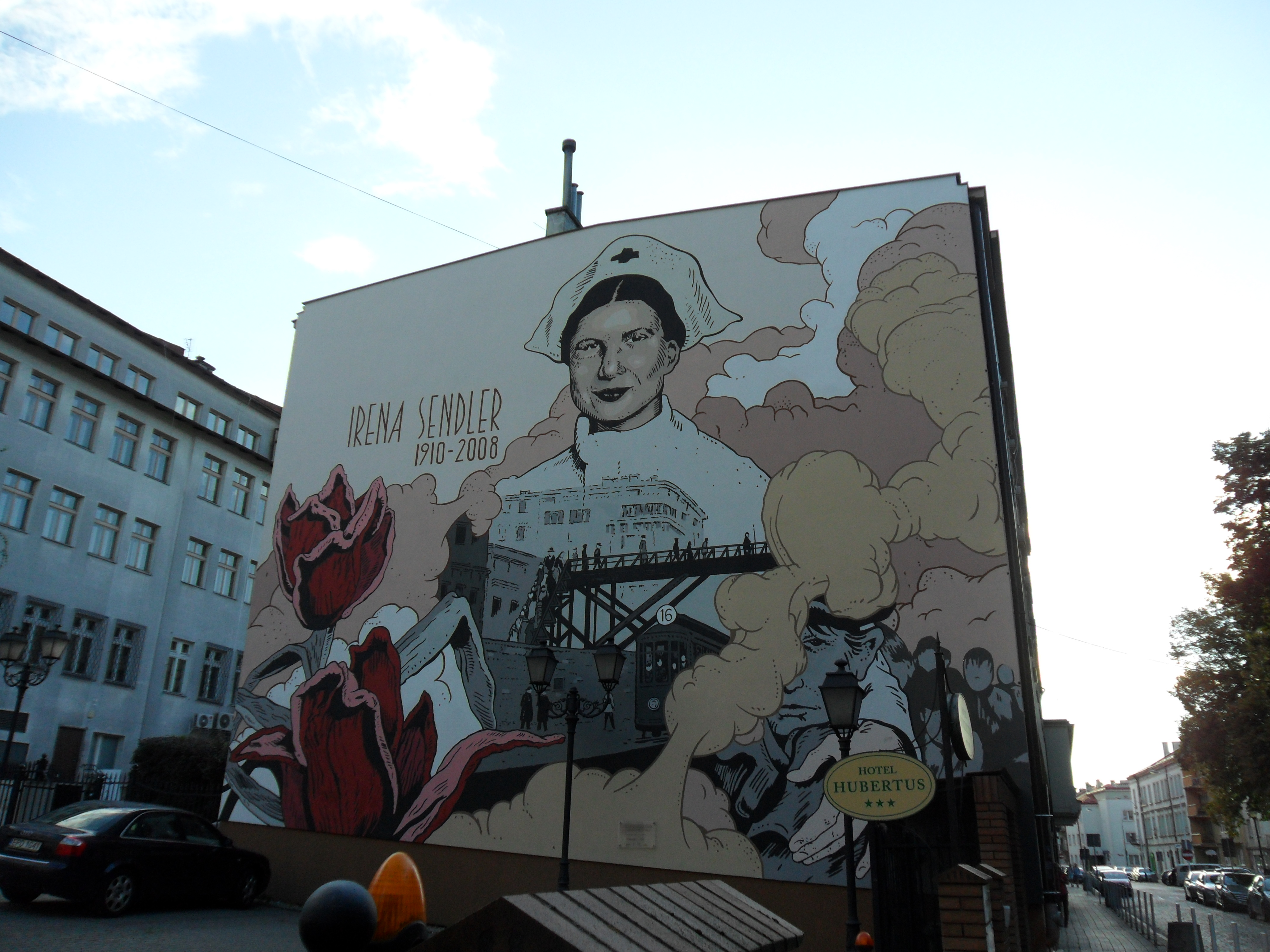 Mural in memory of Irena Sendler (1910-2008), Polish social worker, humanitarian and nurse who served in the Polish Underground during World War II in German-occupied Warsaw. Sendler participated, with dozens of others, in smuggling Jewish children out of the Warsaw Ghetto and then providing them with false identity documents and shelter with willing Polish families or in orphanages and other care facilities, including Catholic nun convents, saving those children from the Holocaust. The mural is located in Mikołaja Kopernika street, Rzeszów, Podkarpackie Voivodeship, Poland.